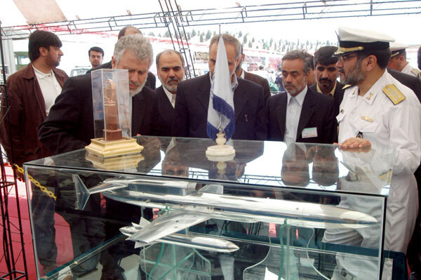 Iranian Minister of Defense Ali Shamkhani inspects a scale model of a prototype of the HESA Karrar UAV.